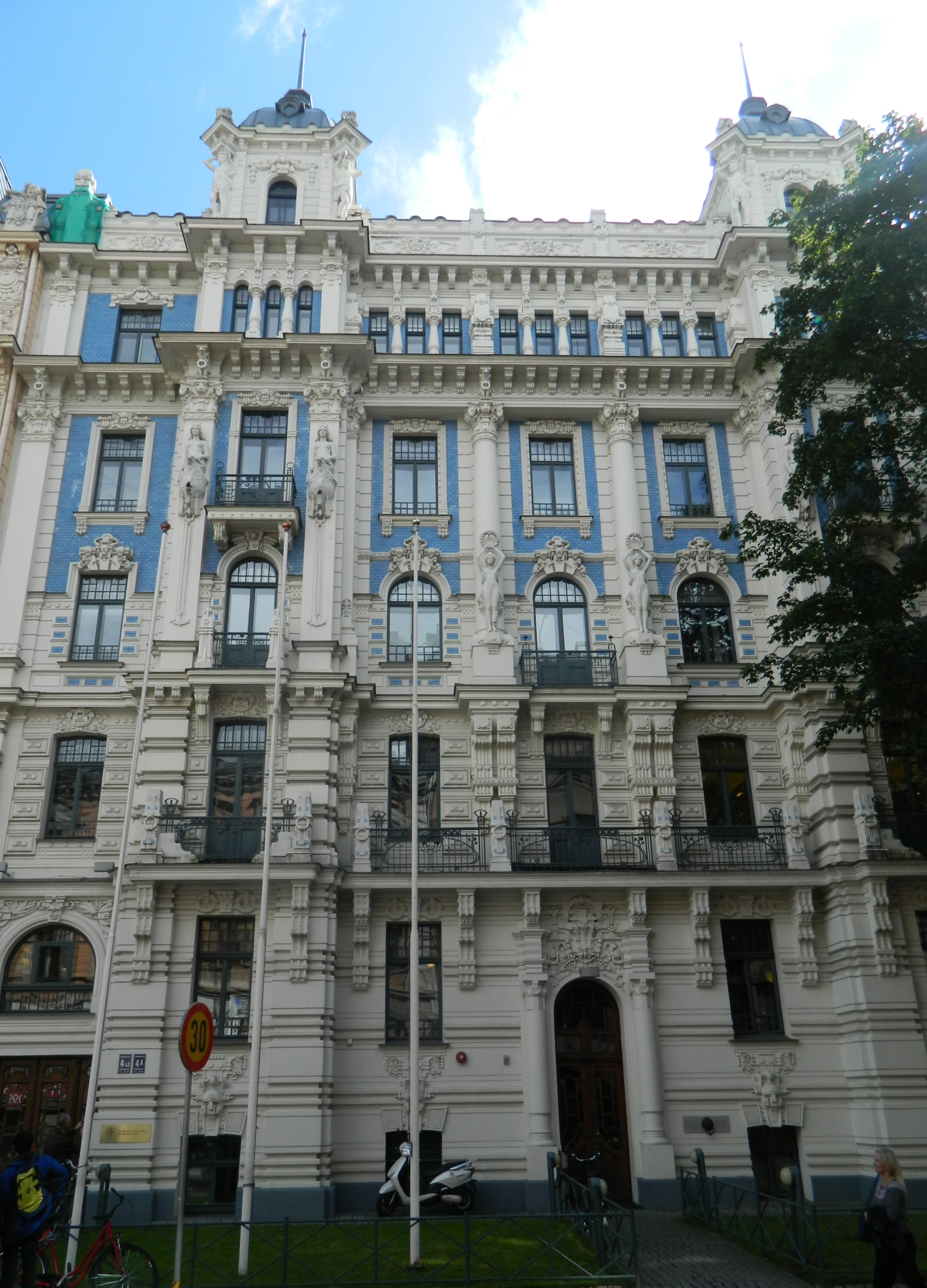 Tenement house Rīga Strelnieku iela 4aLatviešu: Īres nams Rīga, Strēlnieku iela 4a